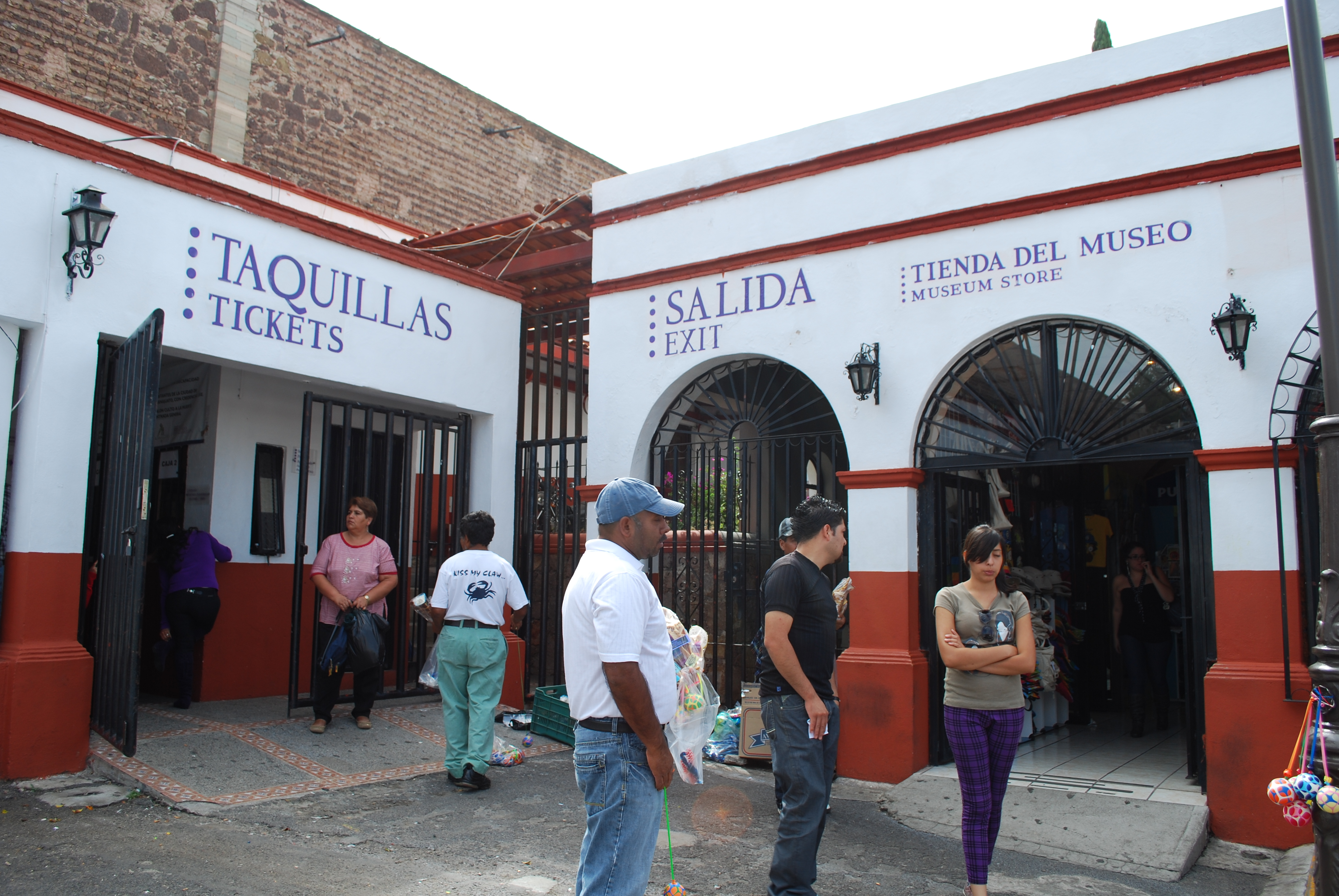 Tickets for the Museo de las Momias of Guanajuato